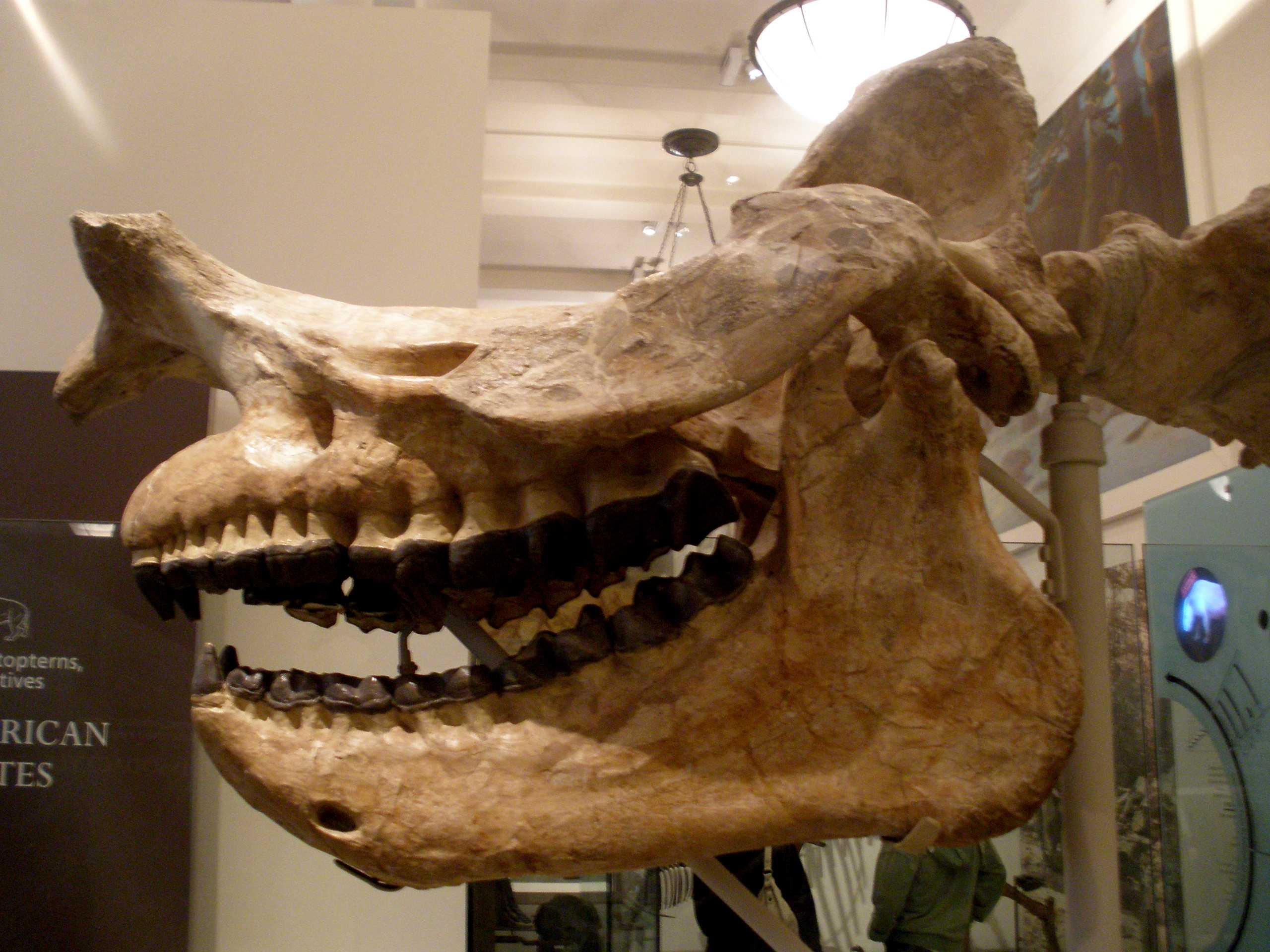 Skull of Brontops robustus